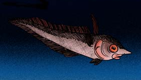 Cropped image of taxon in file name